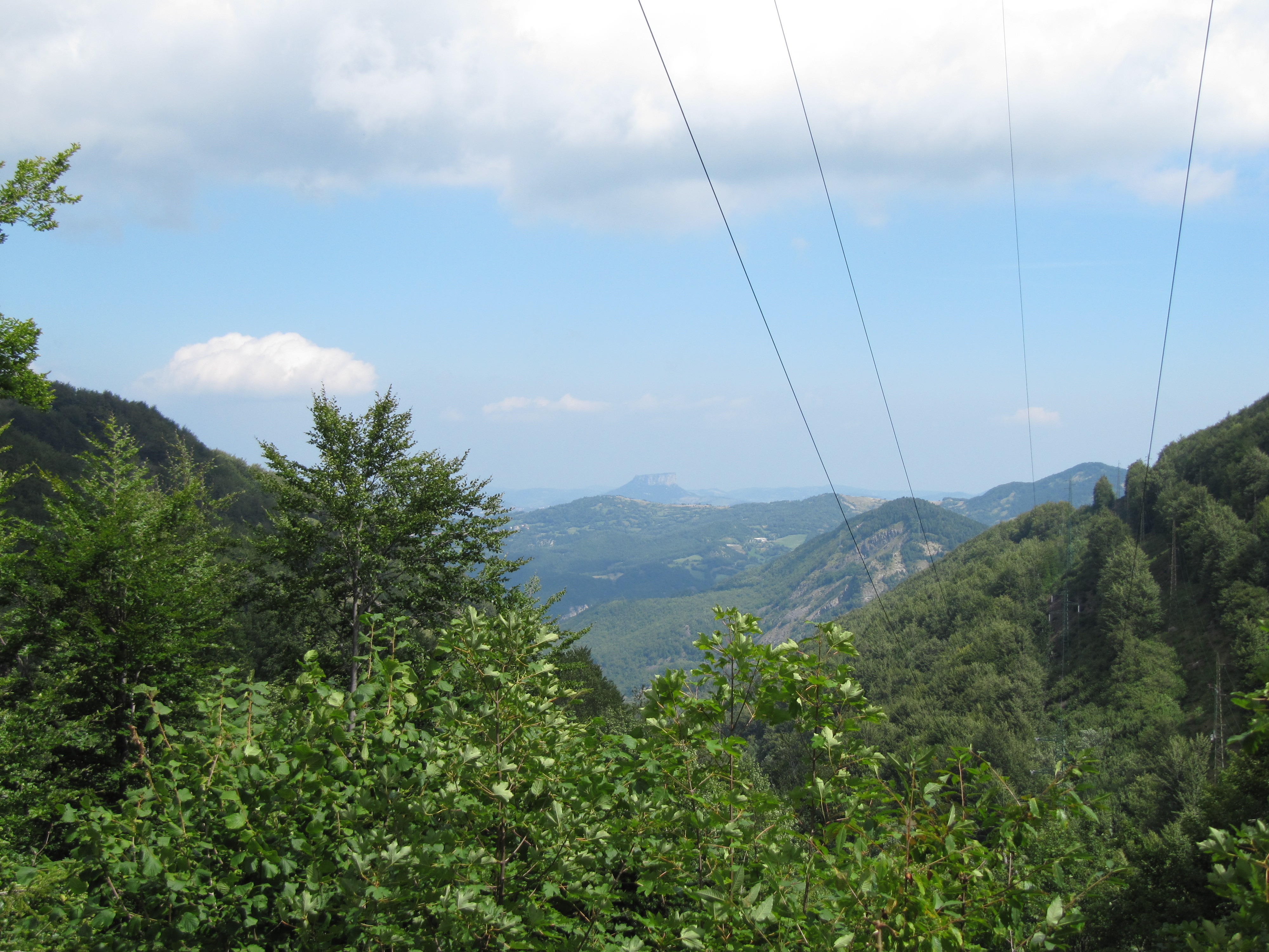 L'Appennino reggiano e la Pietra di Bismantova da Ospitaletto.